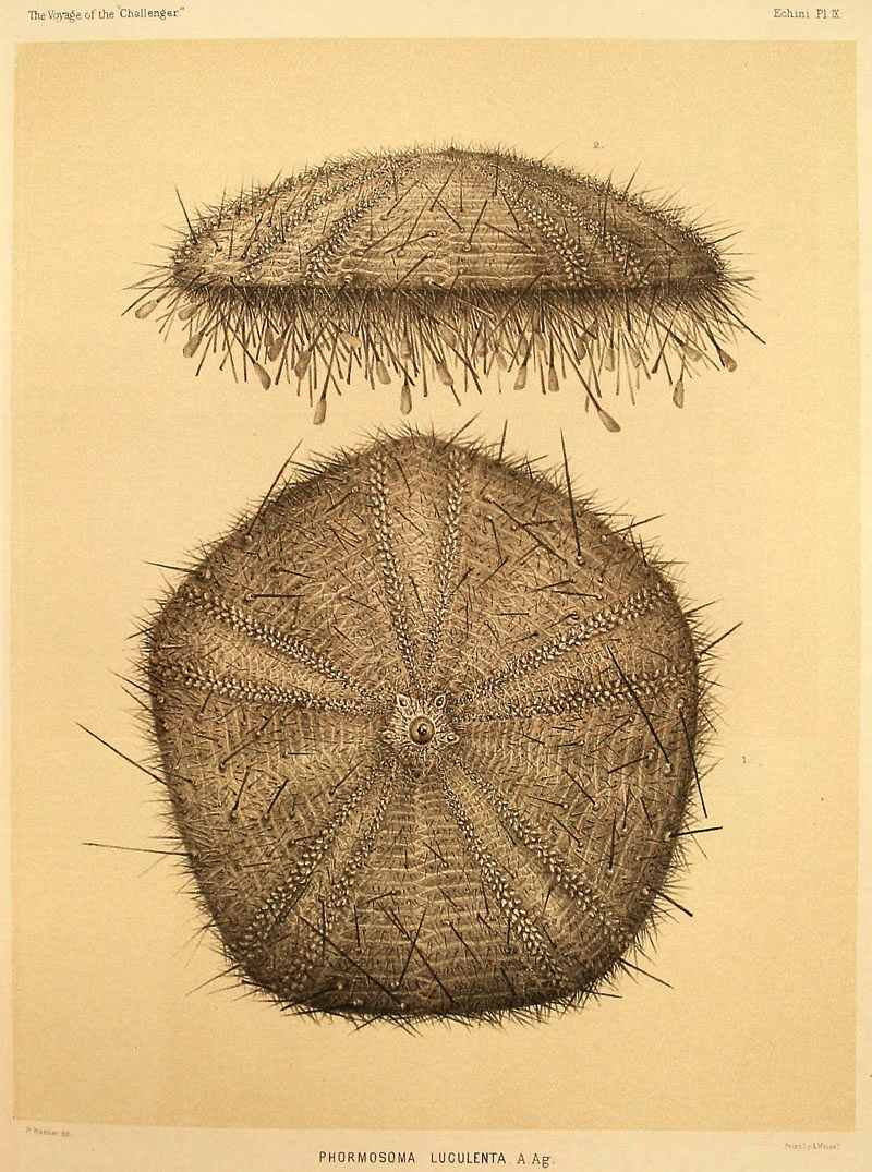 « Phormosoma luculenta » = Hygrosoma luculentum